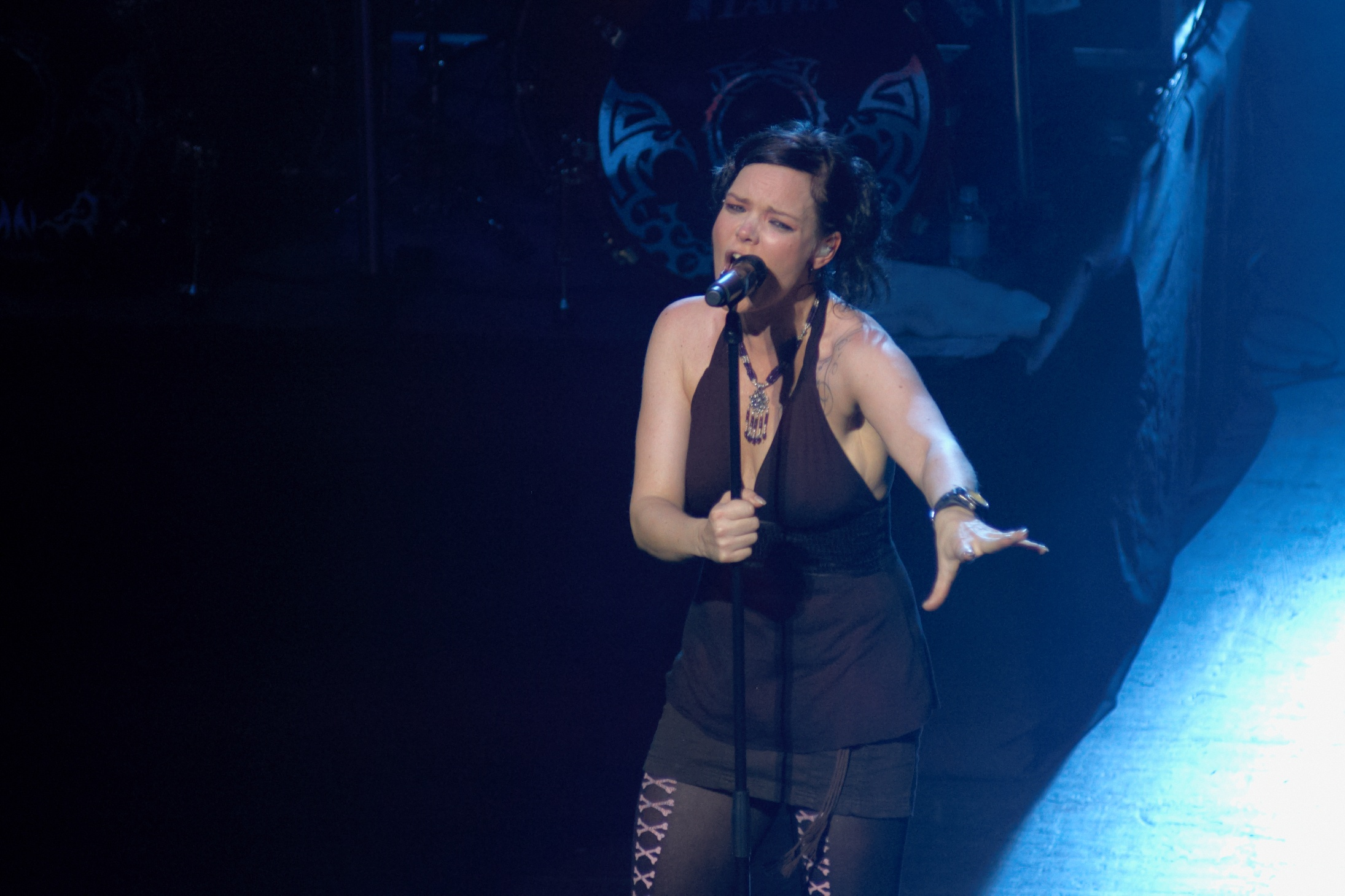 Anette Olzon, Nightwish concert at The Palais, Melbourne.